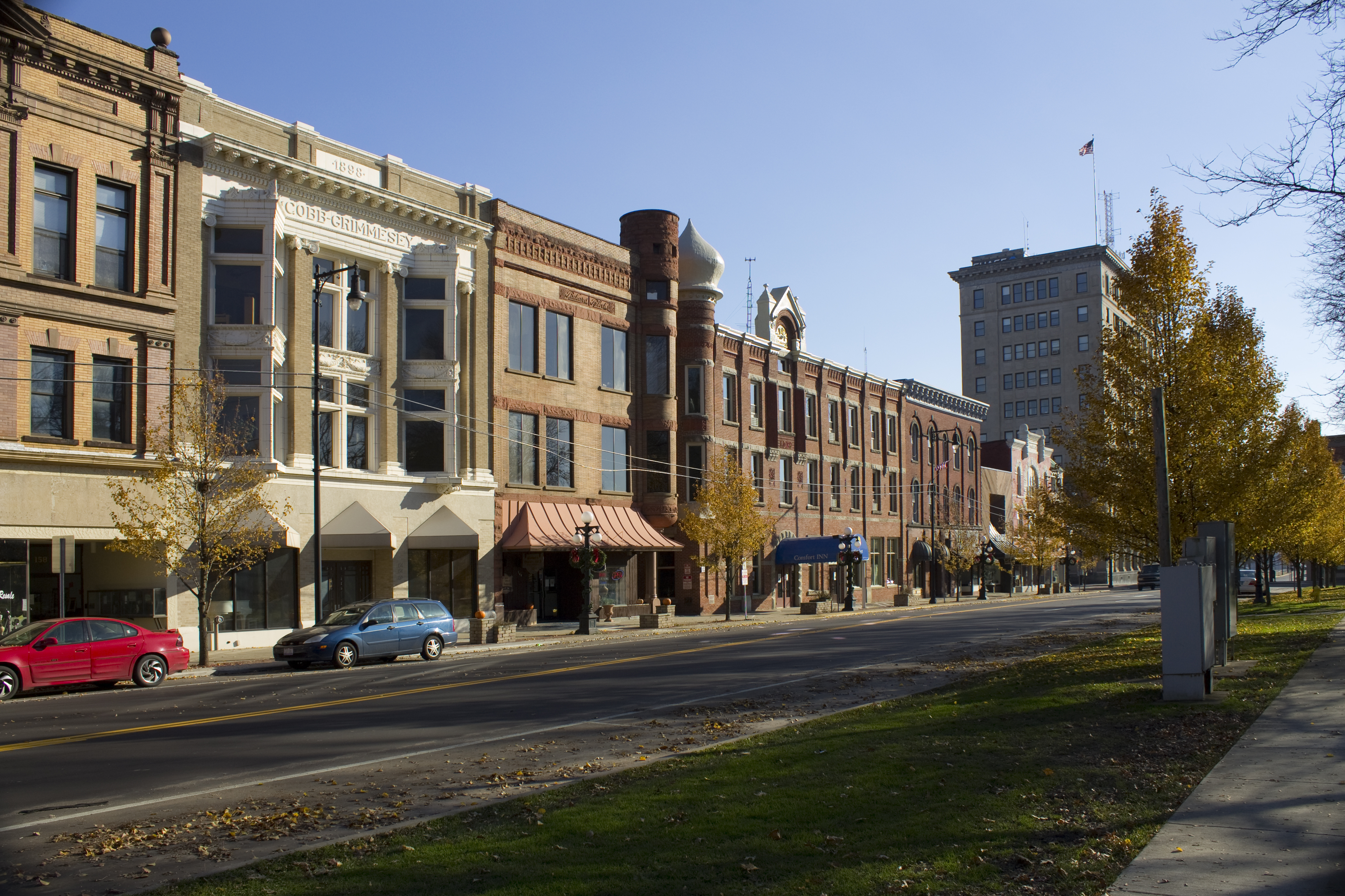 Courthouse Square, Downtown Warren, Ohio, United States.